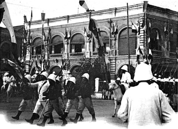 Image from Planche 1, La Chine à terre et en ballon.